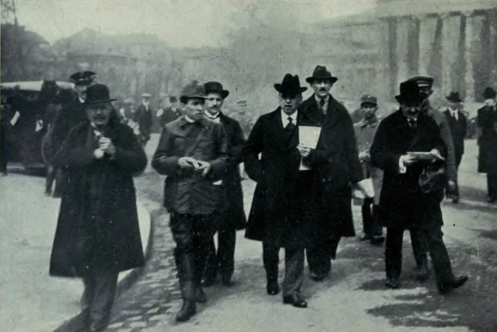 Hungarian Communists Béla Kun, president of the Hungarian Soviet republic (in a hat, carrying papers in his left hand), and Commissar for Military Affairs Tibor Számuelly (in leather jacket), May Day 1919.